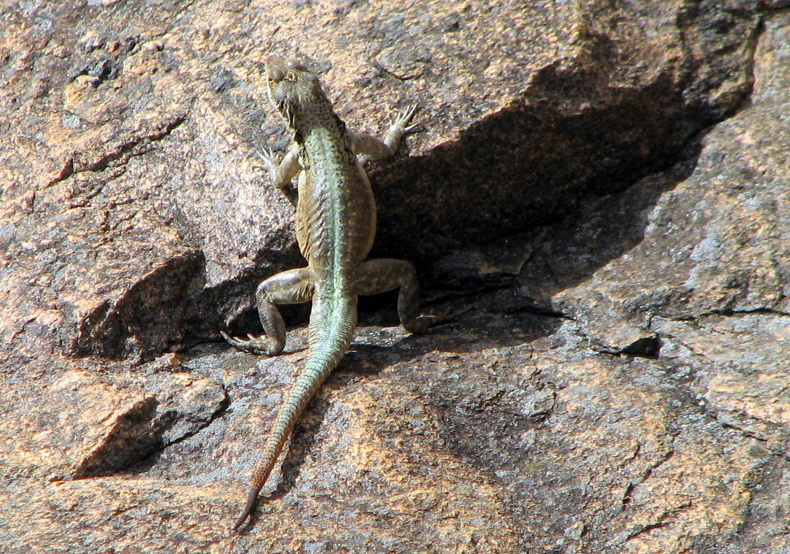 Oplurus grandidieri, Anja Reserve, Madagascar